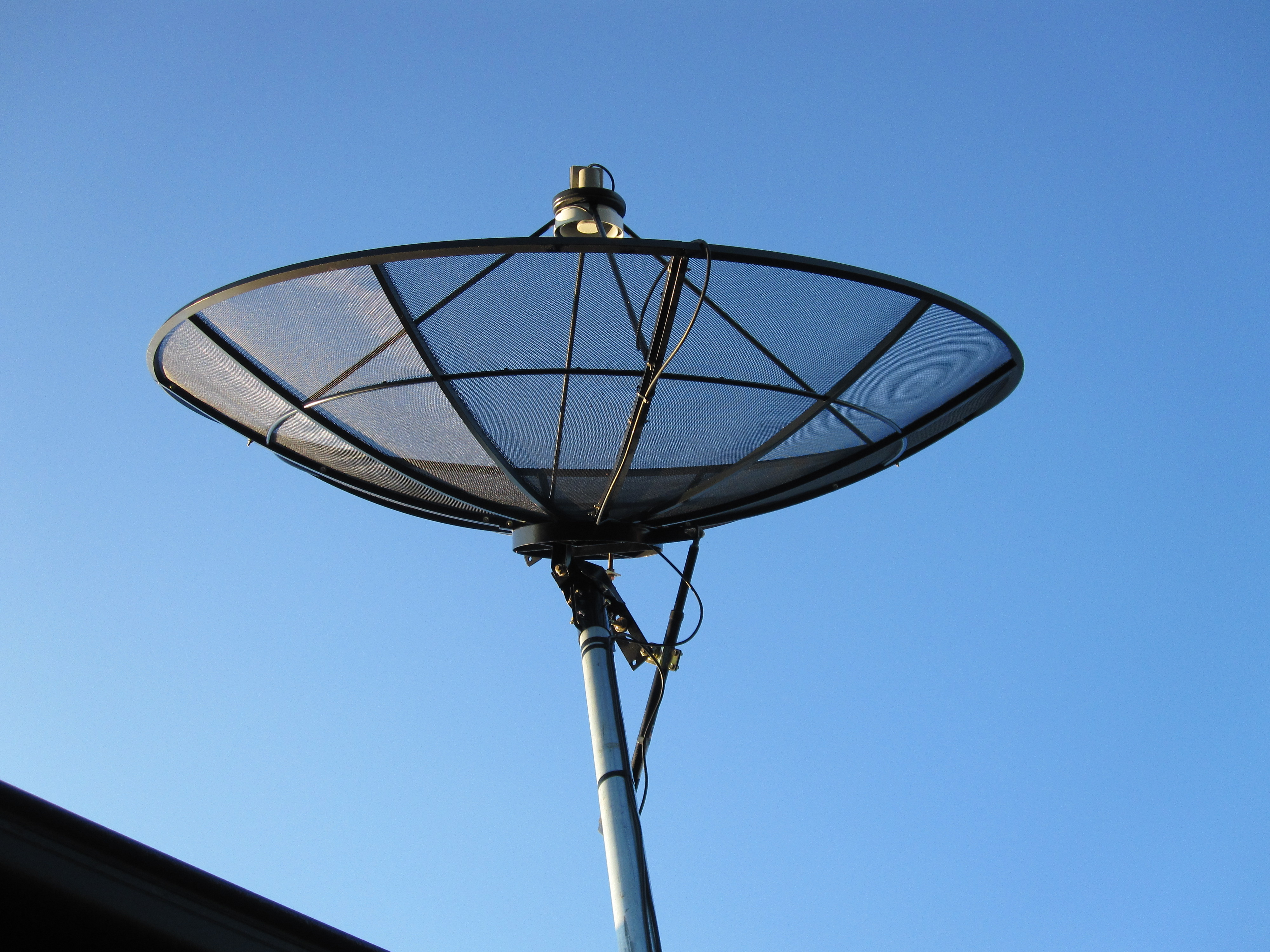 Satellite antenna